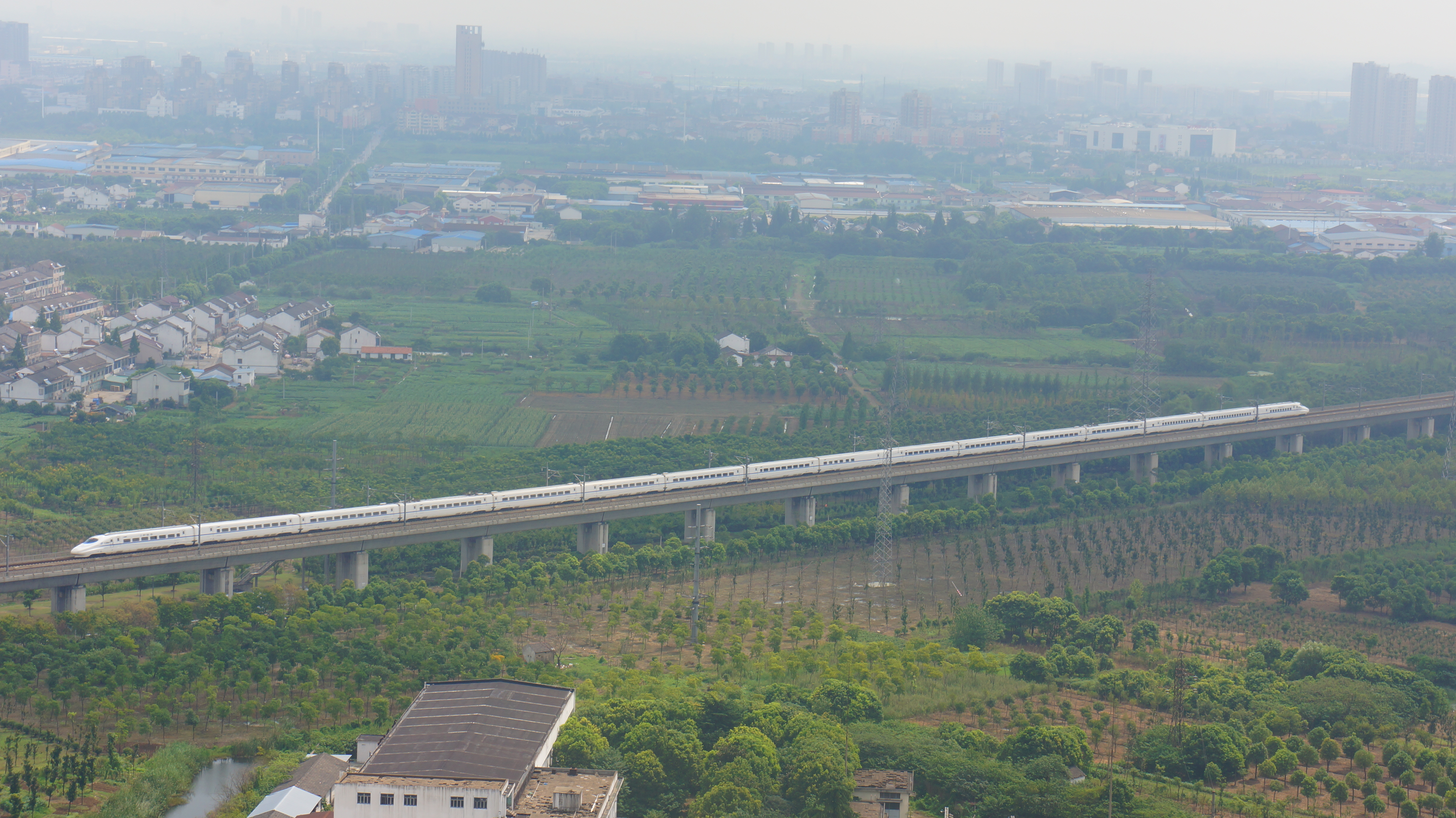 CRH2B near Houshan,Wuxi